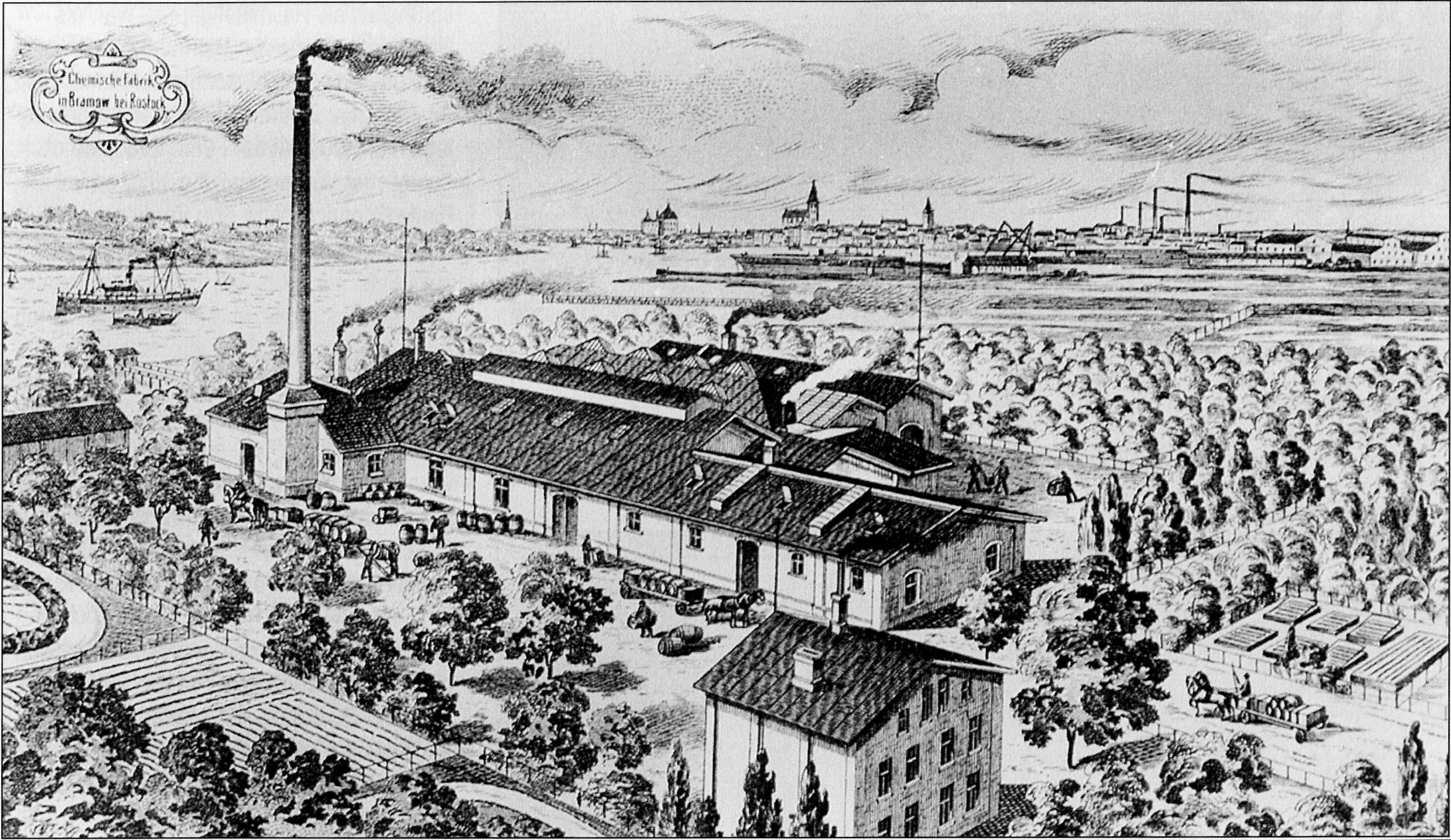 Chemische Fabrik von Friedrich Witte in Rostock/Chemical factory in Rostock